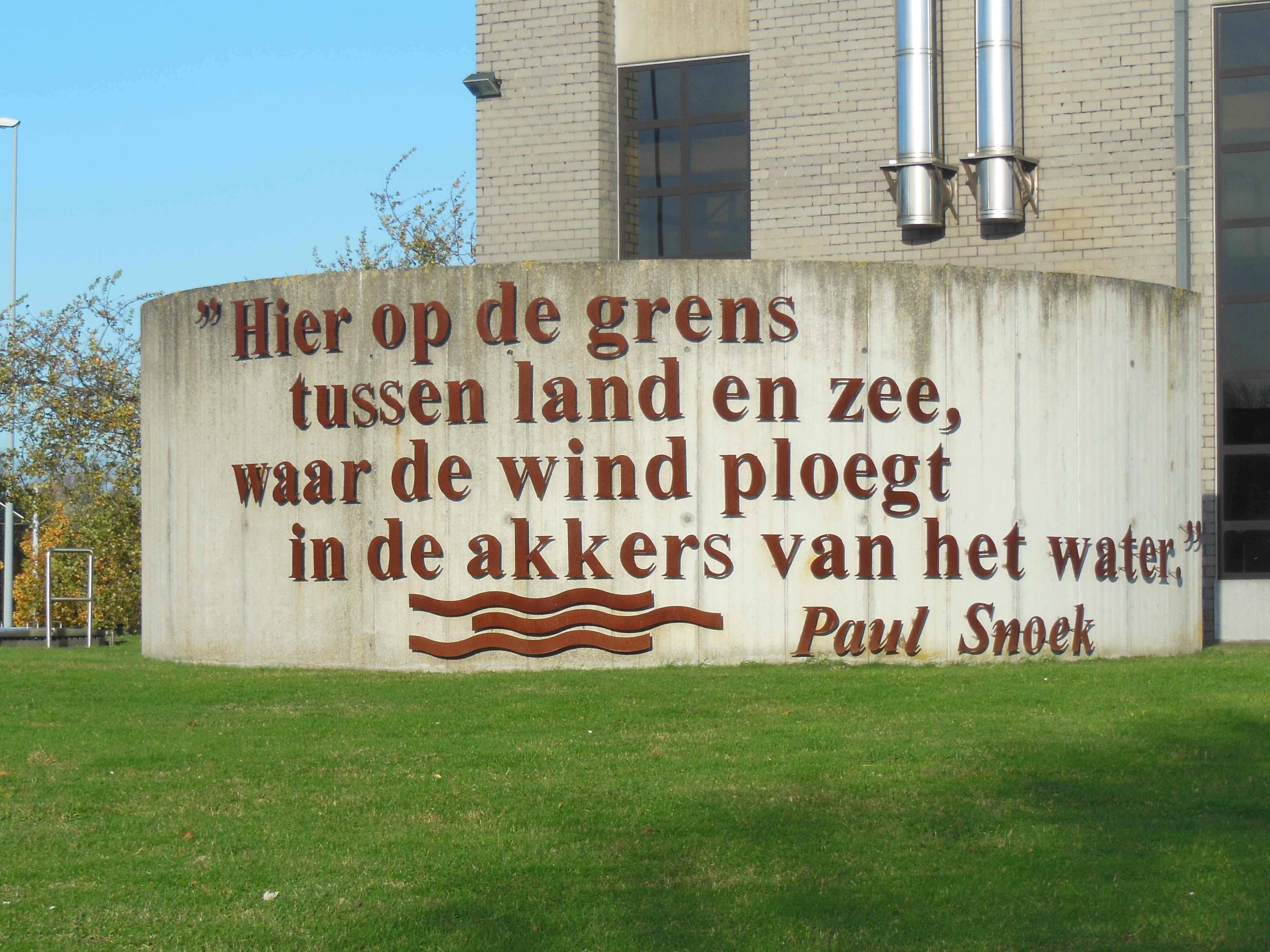 A verse from a poem by Paul Snoek in Corten steel on the wall of the pumping station